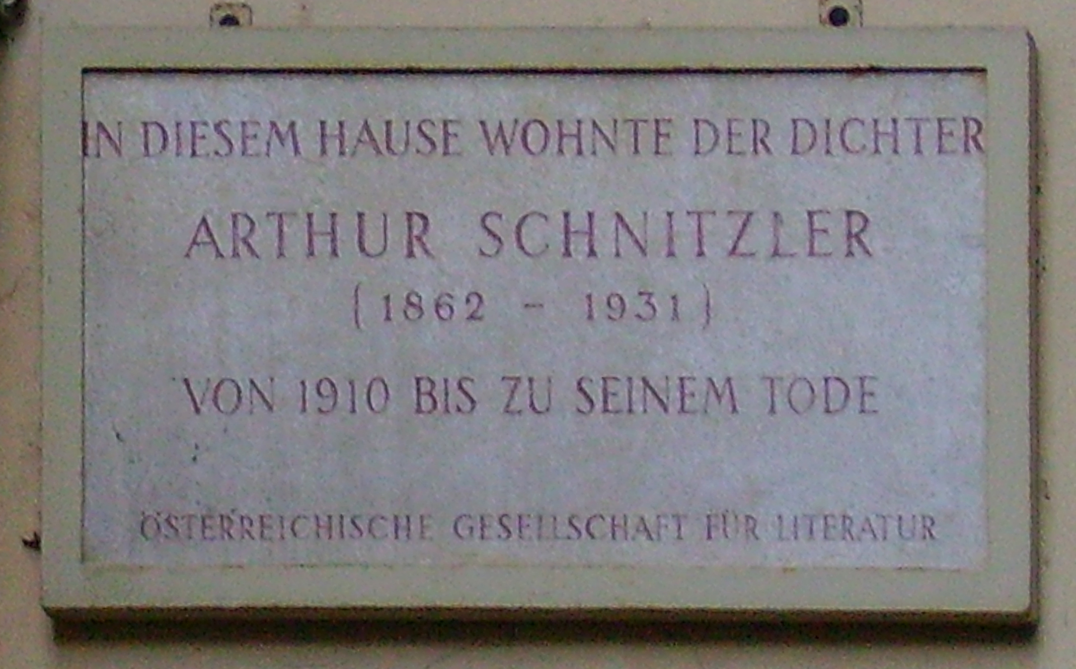 Arthur Schnitzler, memorial plaque at his residence in Vienna, Sternwartestraße 71